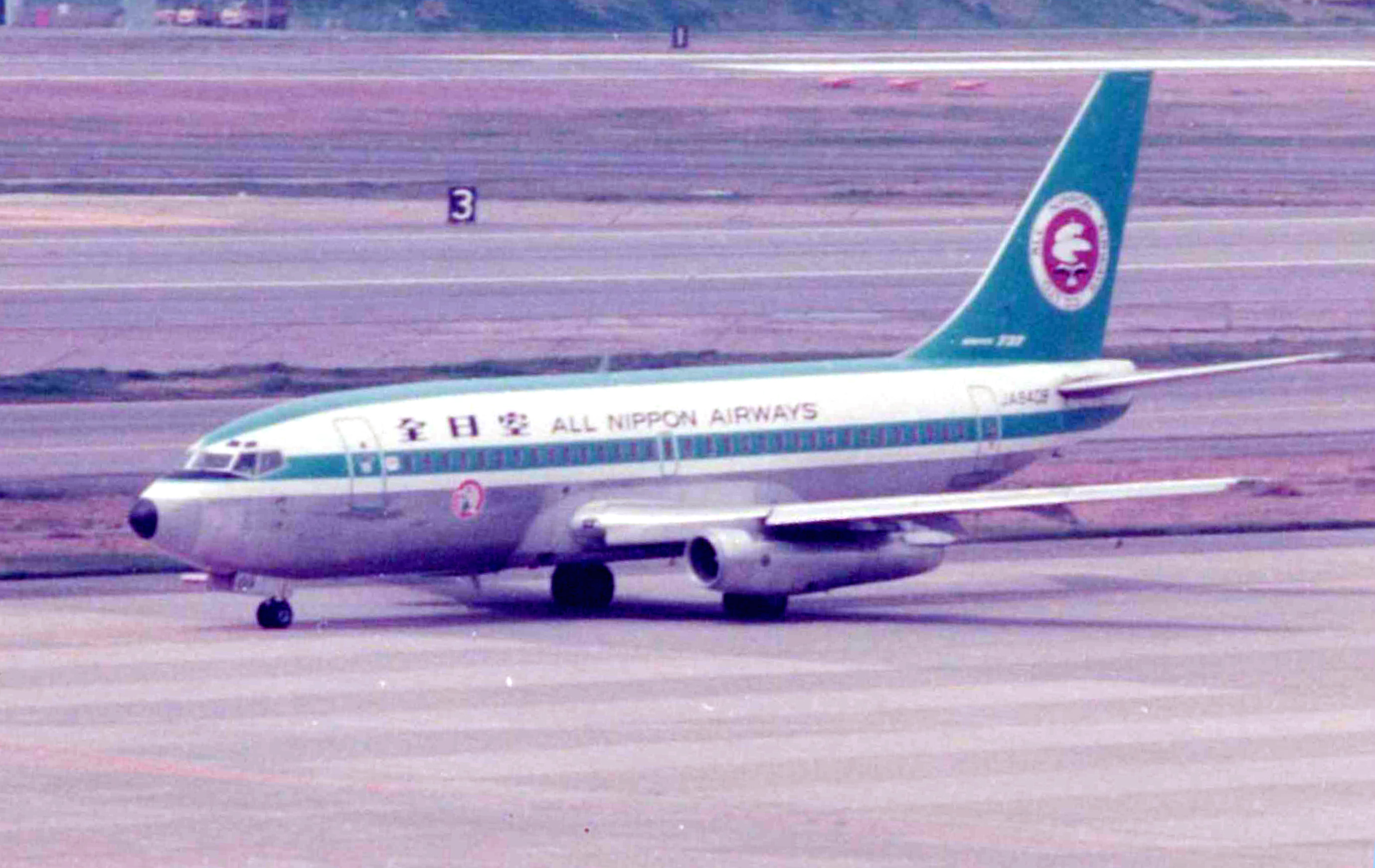 It is Old ANA which it photographed in Itami, Osaka Airport.